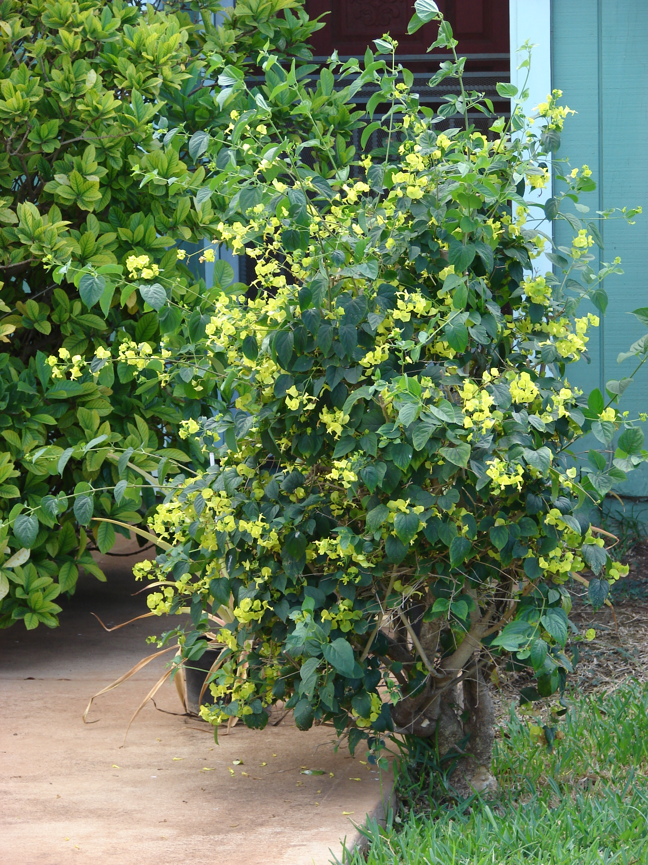 Holmskioldia sanguinea (form citrina flowering habit). Location: Maui, Kihei